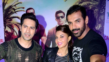 Varun Dhawan, Jacqueline Fernandez & John Abraham promote their film ‘Dishoom’ in New Delhi